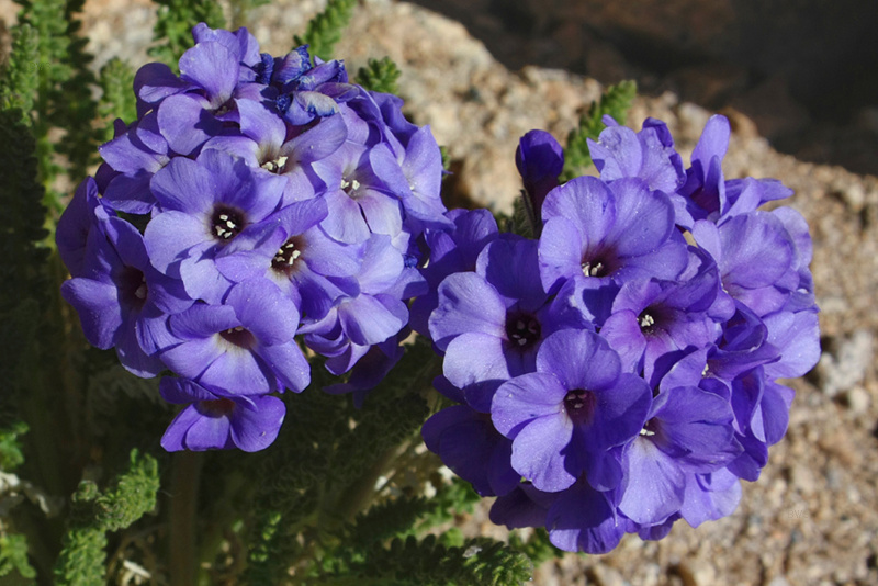 Polemonium eximium — Skypilot, Ultramarine flower. Near the summit of Mount Whitney in the Sierra Nevada, California.